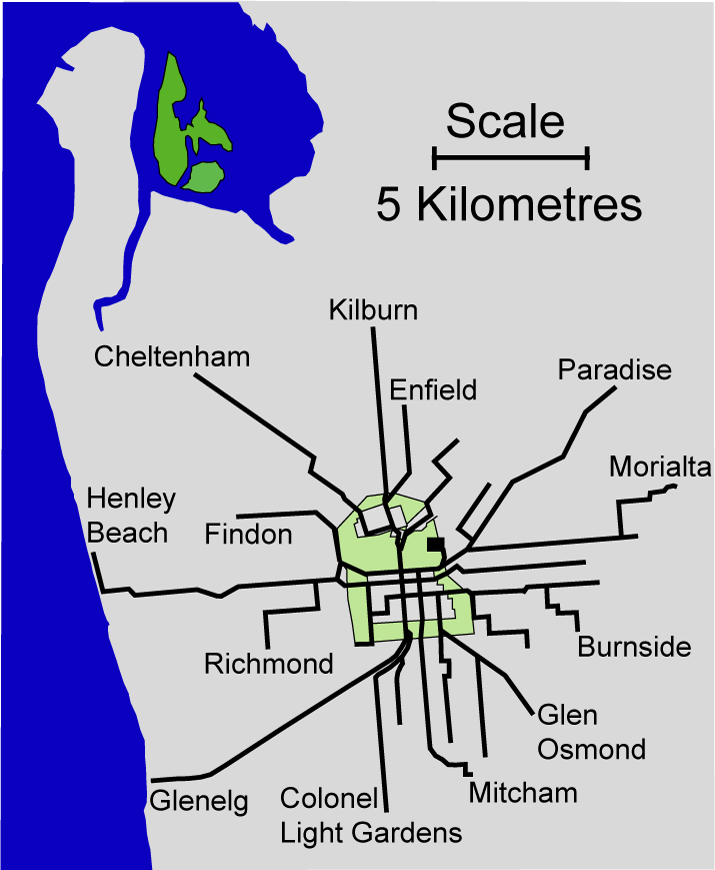 Map of the Adelaide electric tramlines at maximum extent (somewhere between 1952 and 1958). Self created from a 1952 MTT tram map and maps at the St Kilda tram museum Originally uploaded to wikipedia then re-uploaded here. Created by Peripitus